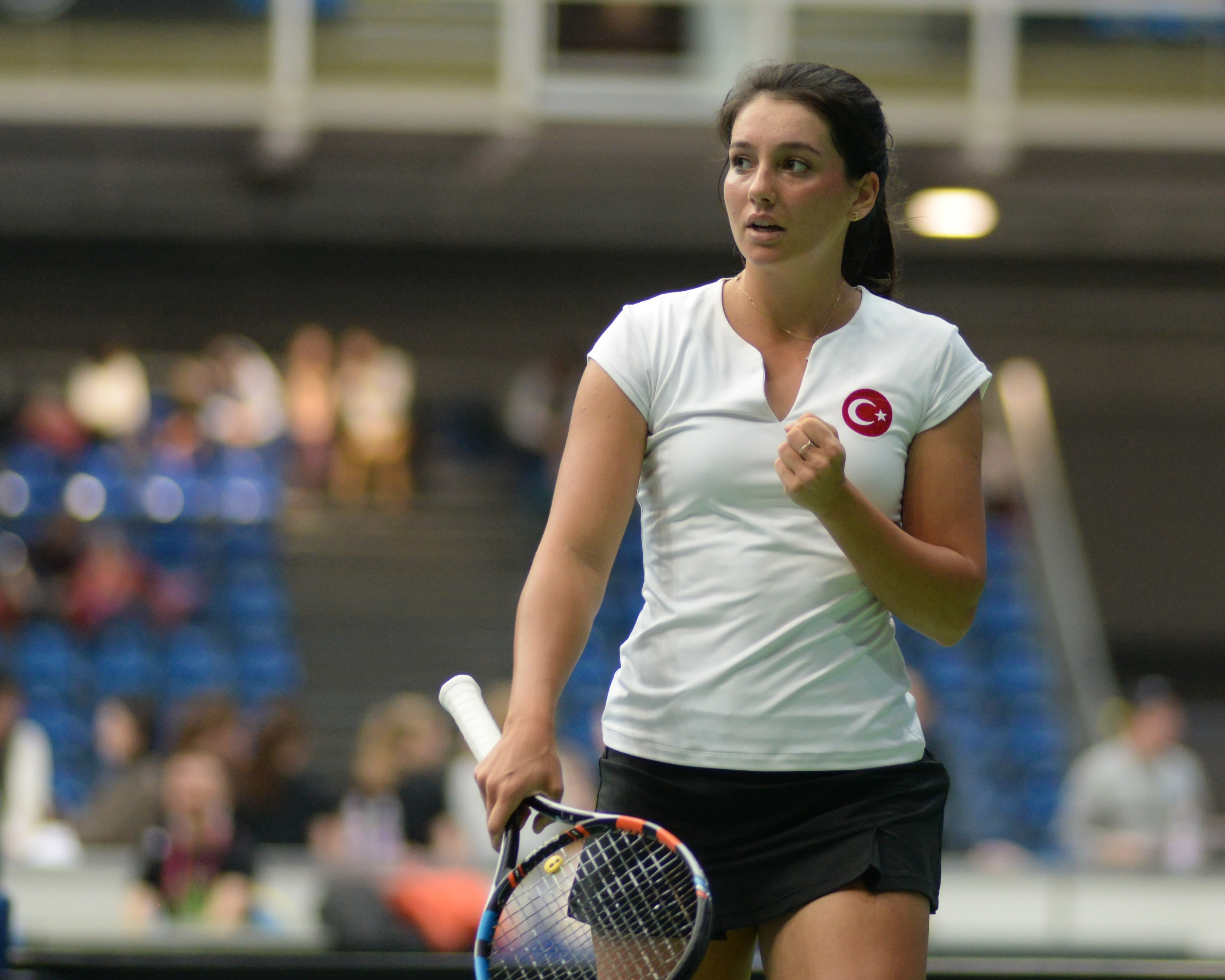 İpek Soylu at the 2015 Fed Cup